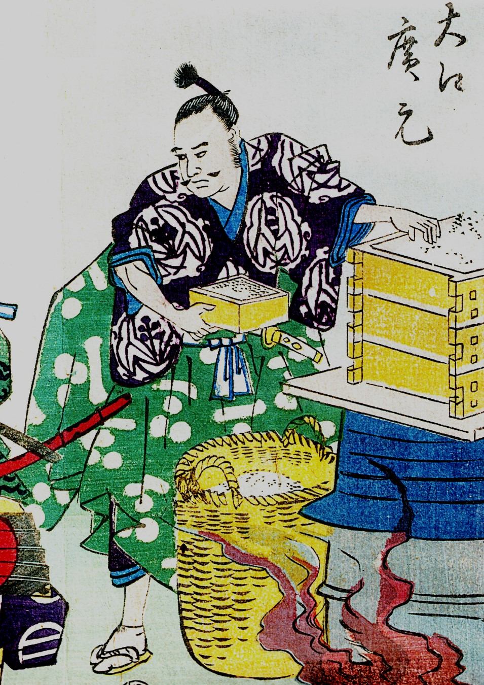 Ukiyo with a Mori, detail